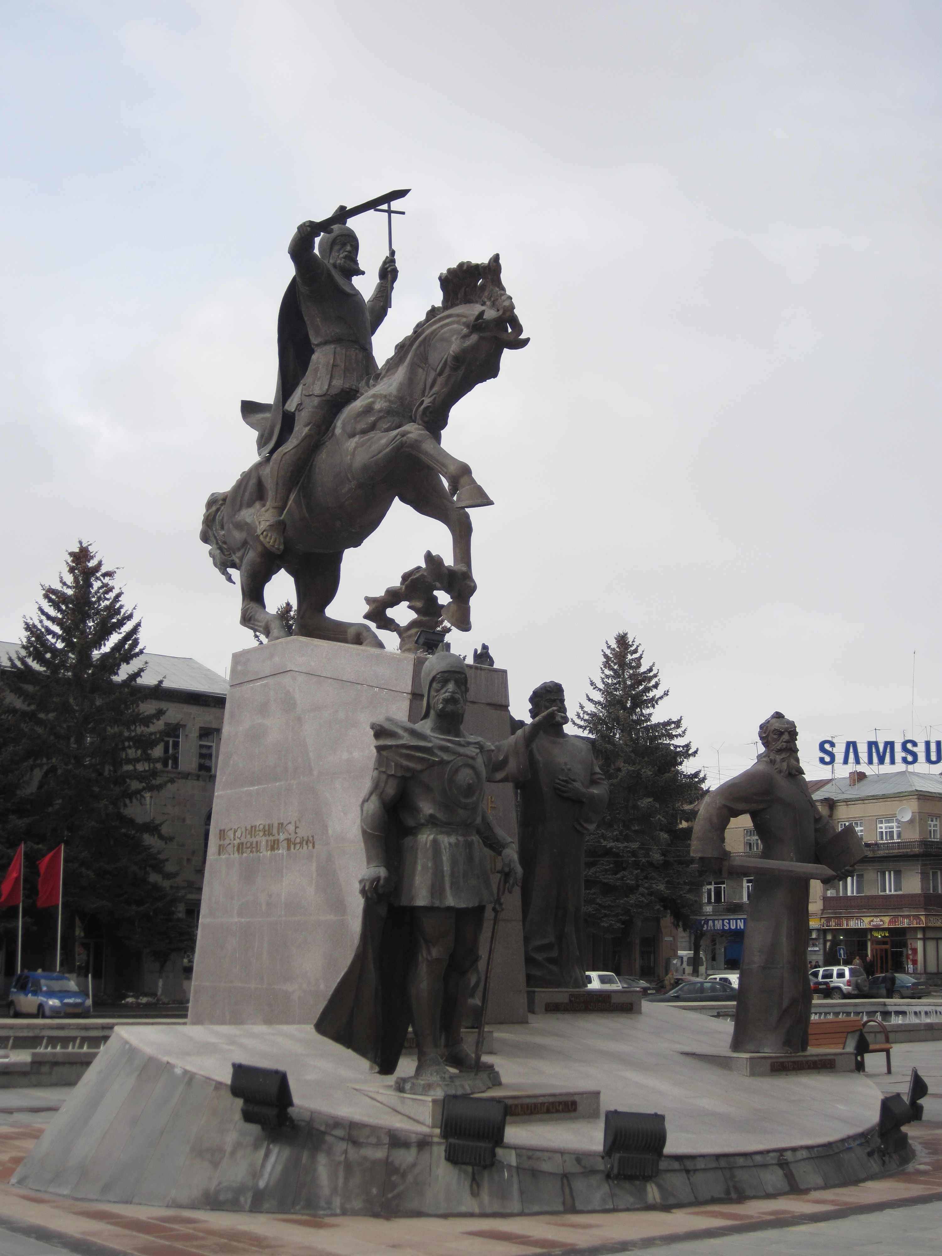 The statue of Saint Vartan Mamikonian, Gyumri, Armenia.